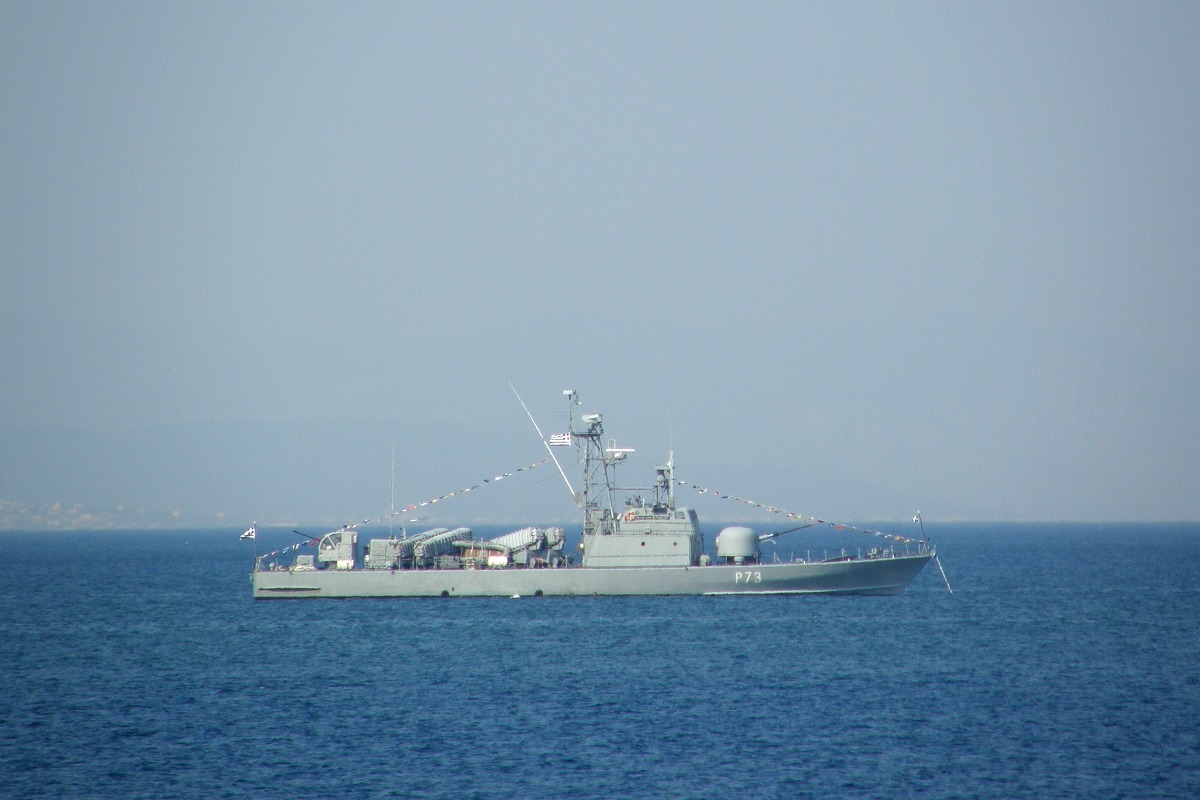 Hellenic Navy Combattante IIa class HS Pezopoulos, P-73 in Phaleron Bay. She was previously the S-148 Tiger class Fast Attack Boat Storch (P-6152) of the German Navy.